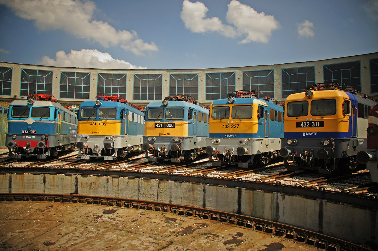 All of the current V43 locomotive series presented in the Hungarian Railway Museum at the 50th anniversary of the first run of the V43 1001